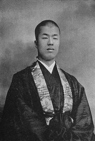 Ryukyo Shibutani